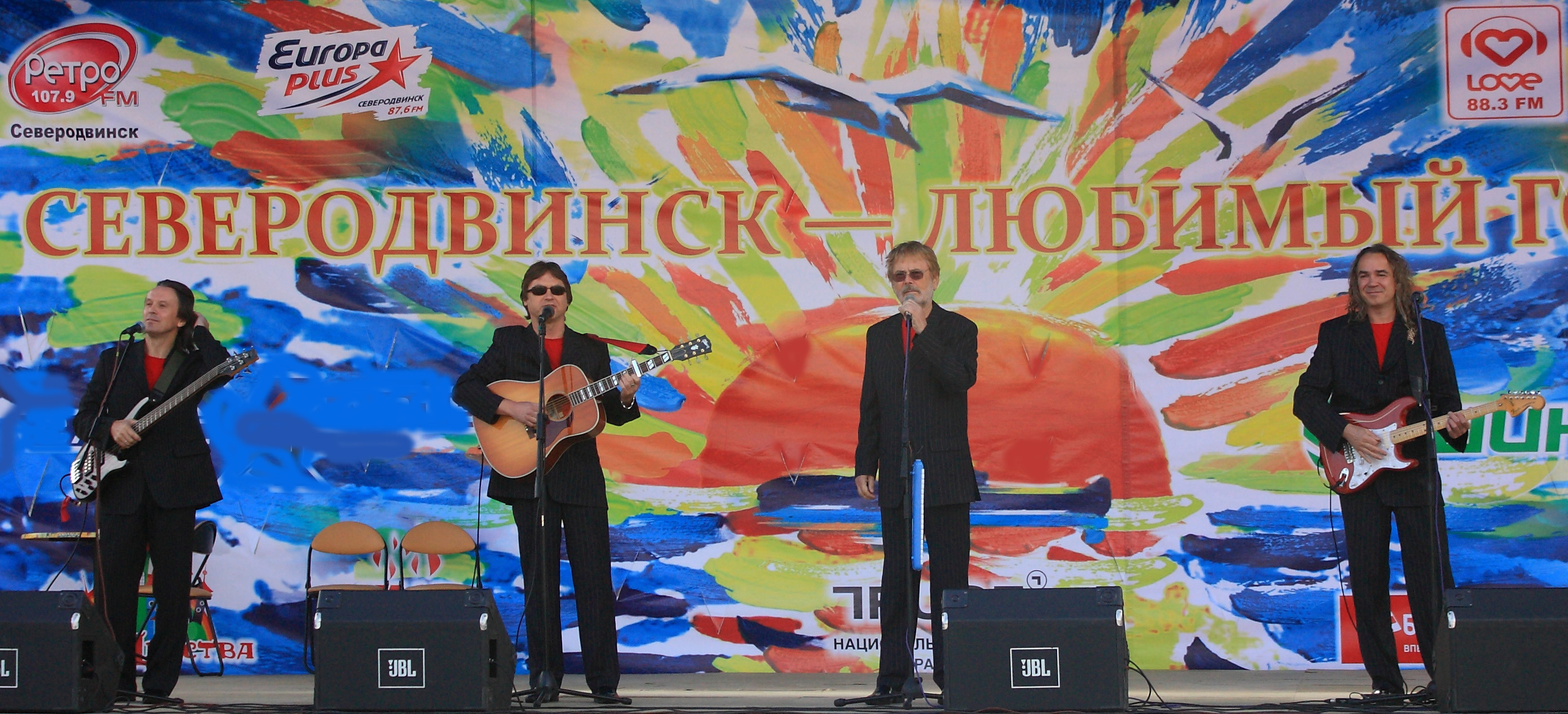 VIA «Plamia»